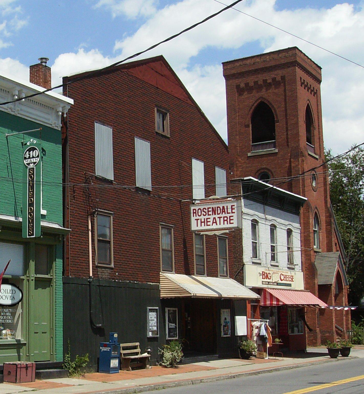 Crop of the Rosendale Theatre, located on Main Street (NY 213) in Rosendale Village, New York